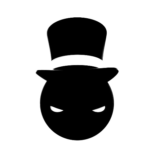 Logo that electronic Music Producer Muzzy uses.